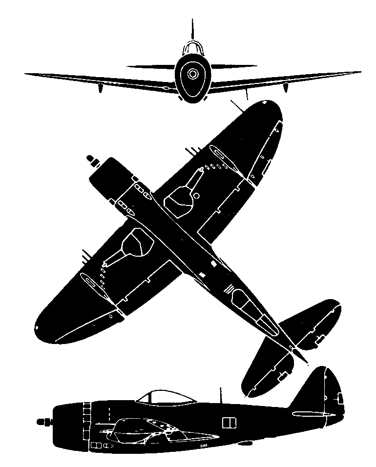 Silhouette of the F-47D Thunderbolt. The World's Fighting Planes (William Green and Gerald Pollinger, McDonald: London 1954) used 55 Crown Copyright silhouettes provided by the Controller of H.M. Stationery. An acknowledgements section on page 6 of the book identifies them by page. This image is one of those and since the publication date is pre-1957 is in the public domain.